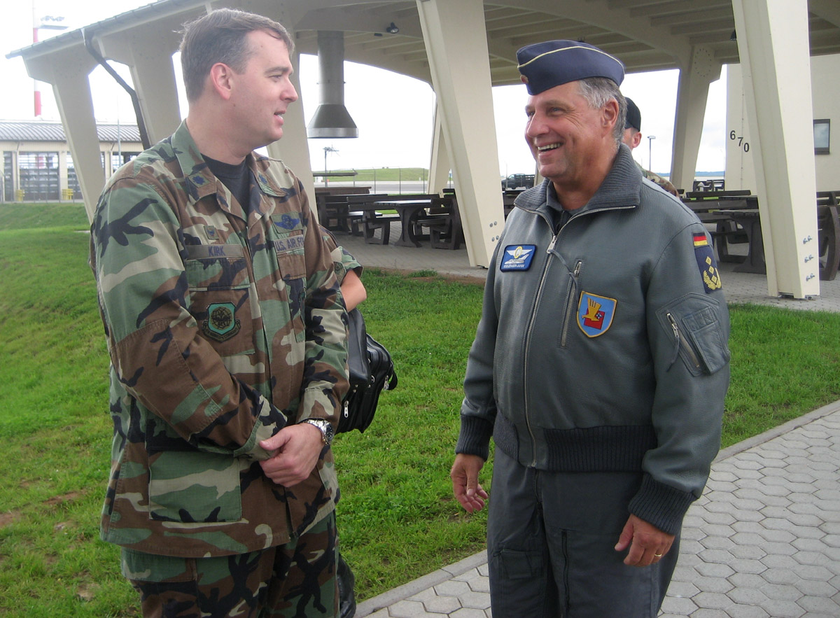 Visit of LtGen Kreuzinger-Janik (COM GAFCOM) at Spangdahlem Air Base on the 20. August 2007